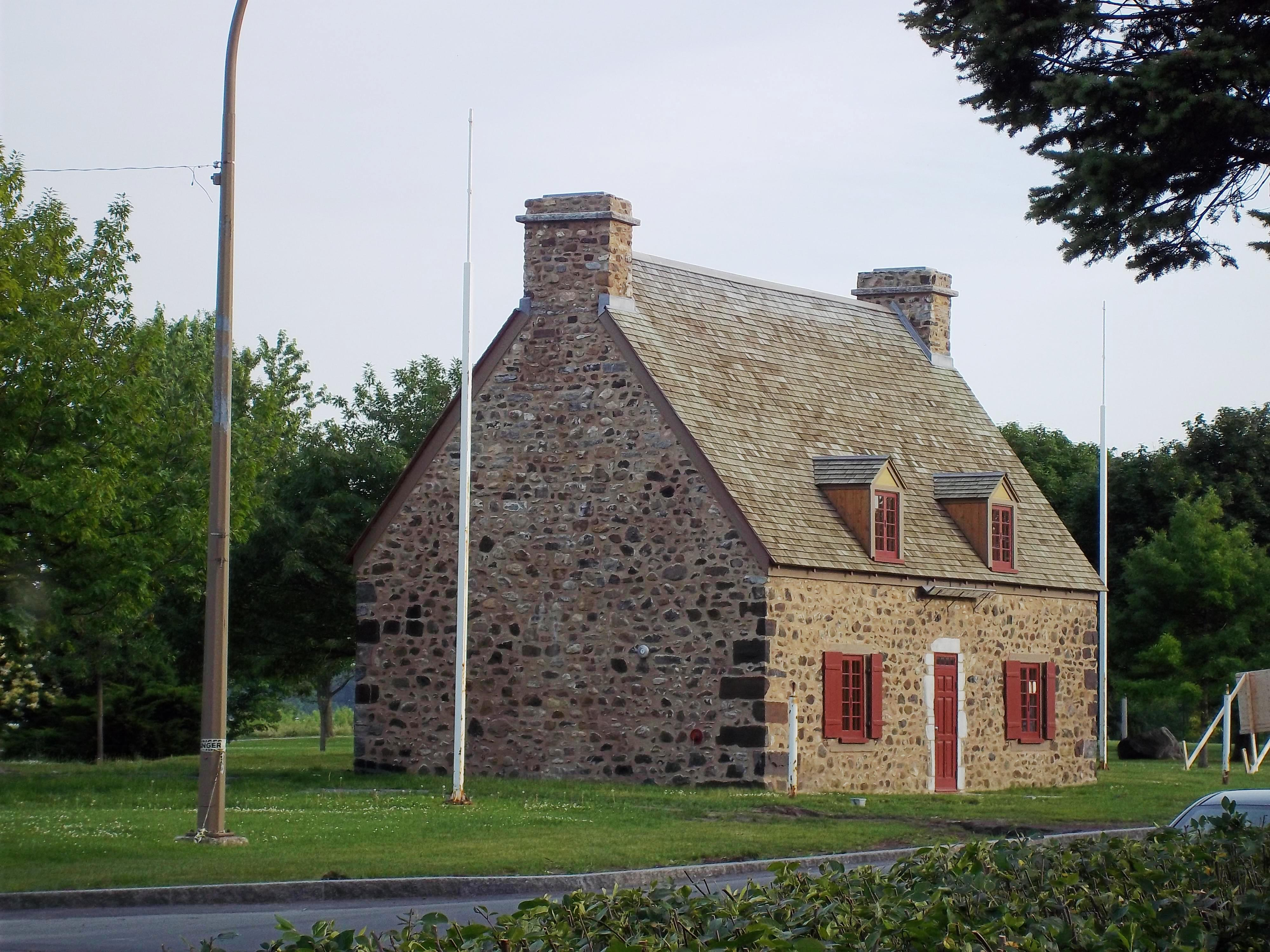 Nivard-De Saint-Dizier House, 7244, LaSalle Boulevard, Borough Verdun, Montreal, Quebec, Canada.